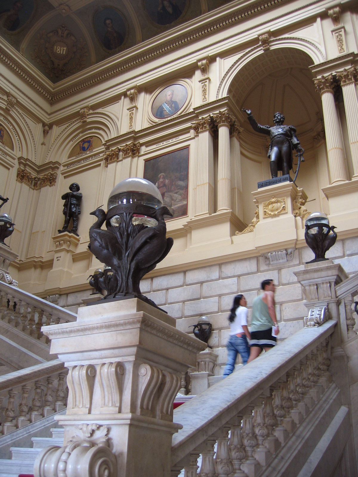 Interior of Ipiranga Museum in São Paulo, Brazil. The vials contain water from each major river in Brazil.